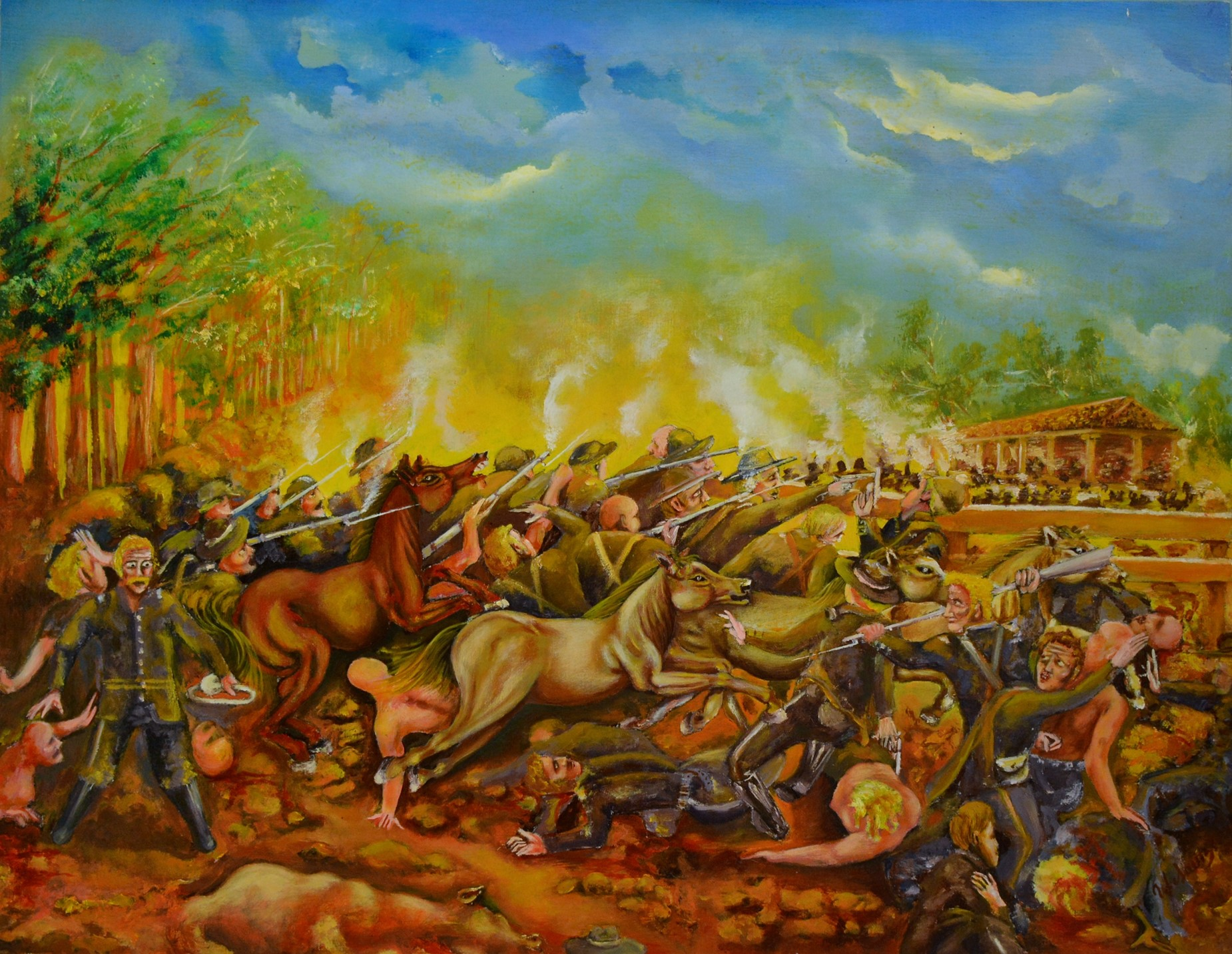 The pictorial work "The Battle of San Jacinto" (September 14, 1856 Managua, Nicaragua) stages an episode of the Testimony documented thanks to Major Carlos Alegría in 1886, one of the military actors of the battle and who was also named General after Your participation in this.